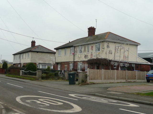 Council housing in Westbury Set by the B4386 Shrewsbury to Montgomery road, one owner enjoys a good Christmas light display.